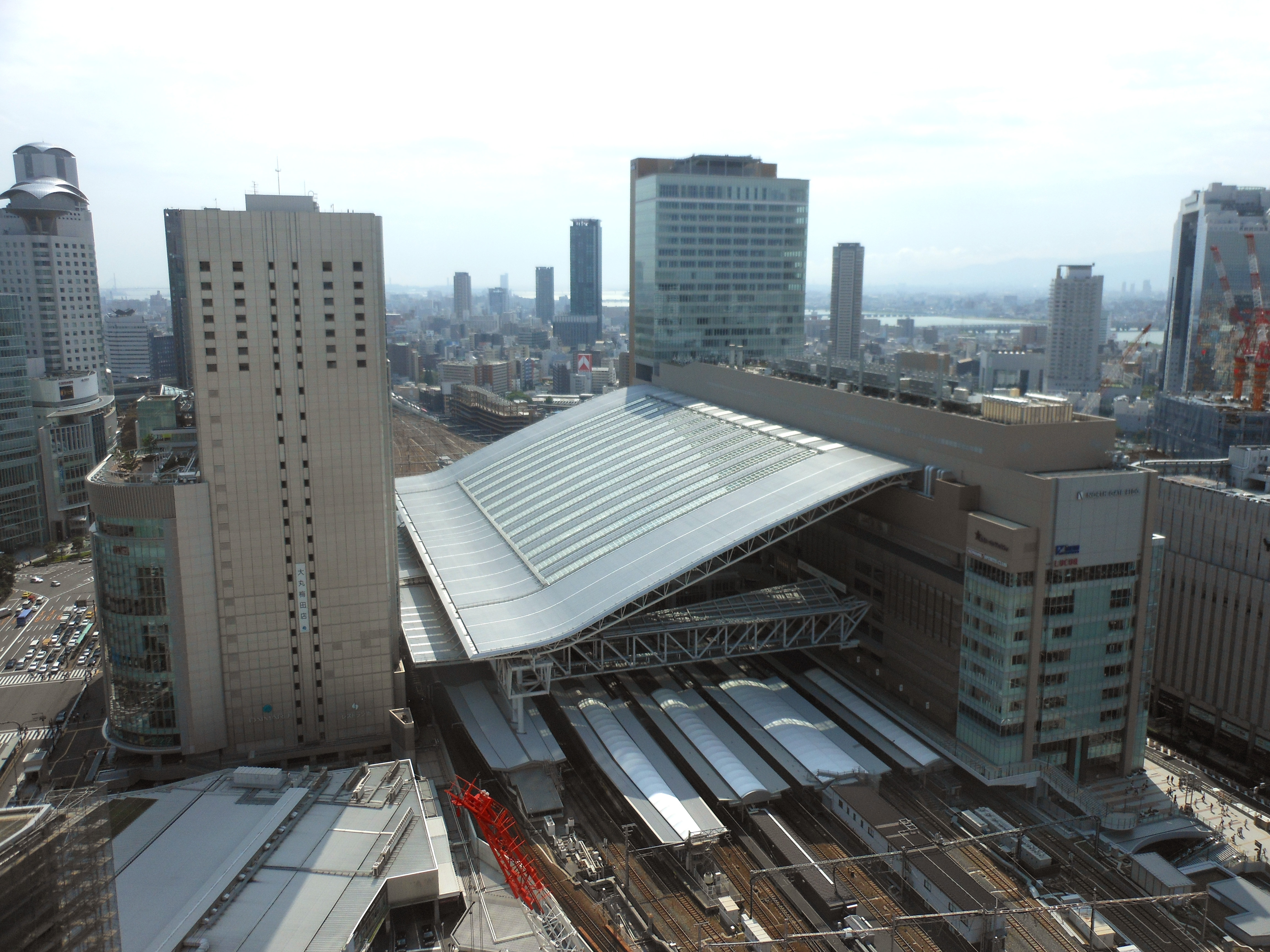 OSAKA STATION CITY,Umeda Kita-ku Osaka-City OSAKA JAPAN.